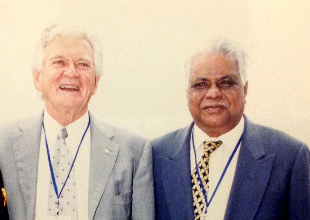 noon and bob